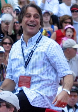 Image cropped from original. Taken at the Indianapolis 500 Festival Parade.